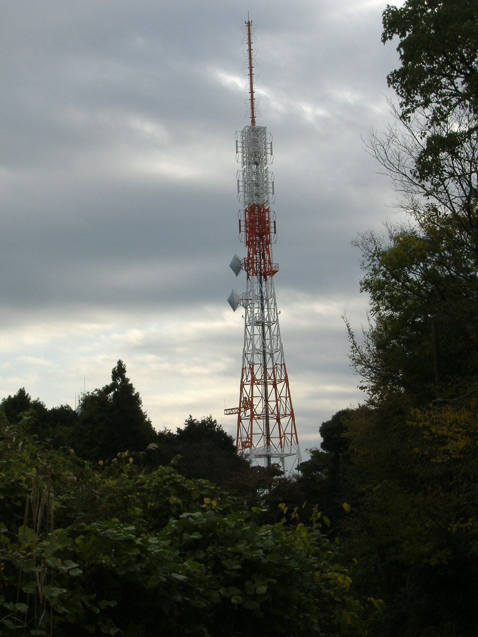 NHK-FM_Enkaizan_Radiotower (Yokohama, Japan)